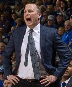 U.S. AIR FORCE ACADEMY, Colo. -- USAFA Men's Basketball vs Drake (U.S. Air Force photo/Joshua Armstrong)